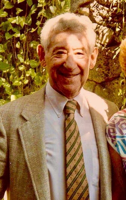 Photo taken February 1986 at the Kahala Hilton Hotel in Honolulu Hawaii - Photo shows actor Jack Gilford